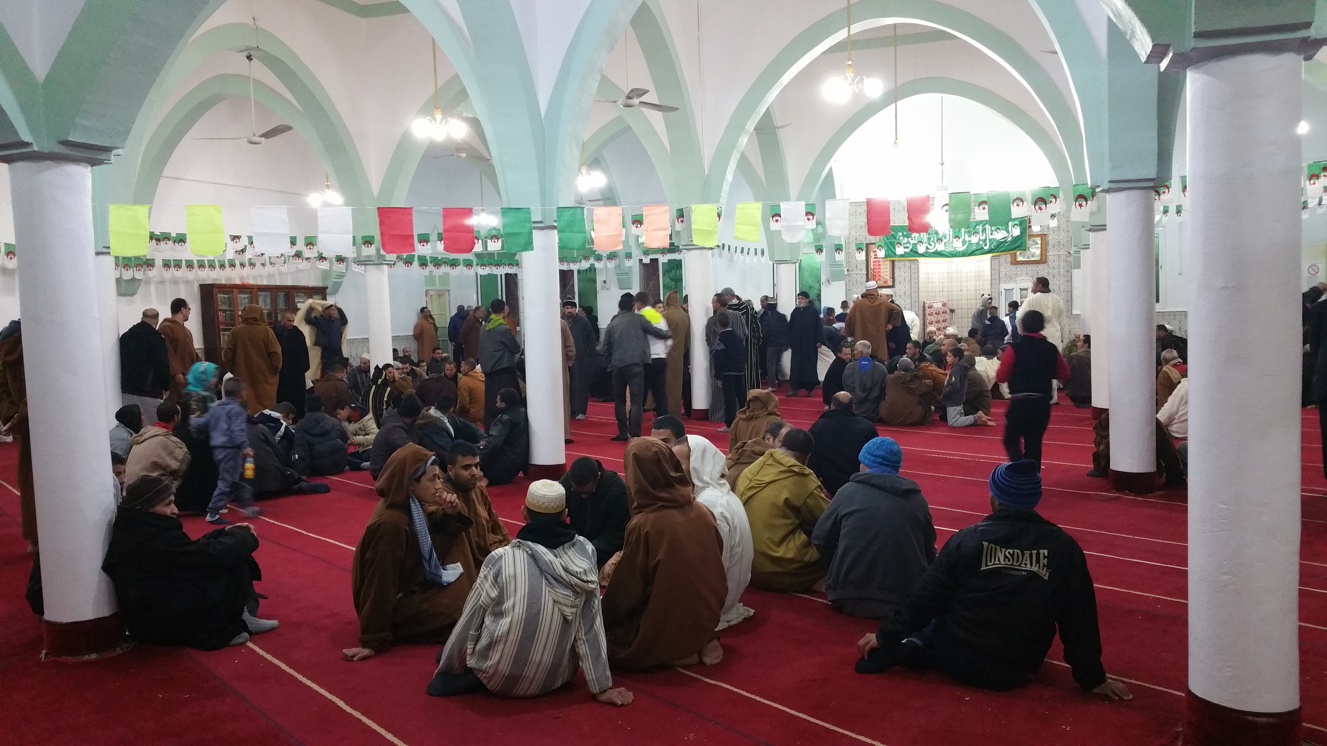 Récitation du Coran dans une mosquée en Algérie This is an image of music and dance from Algeria